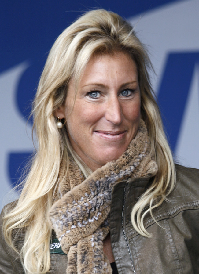 Austrian athlete Stephanie Graf ("Day of Sports", Heldenplatz, Vienna).